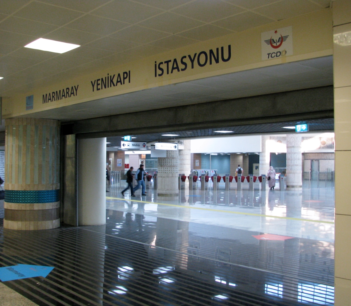 Marmaray